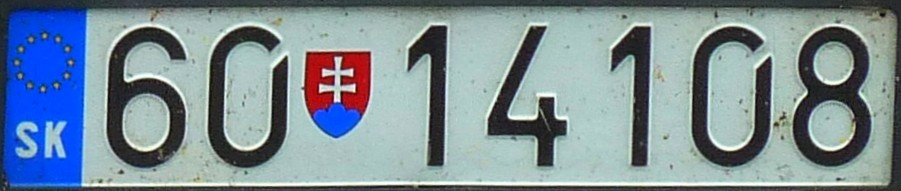 Slovakian military license plate